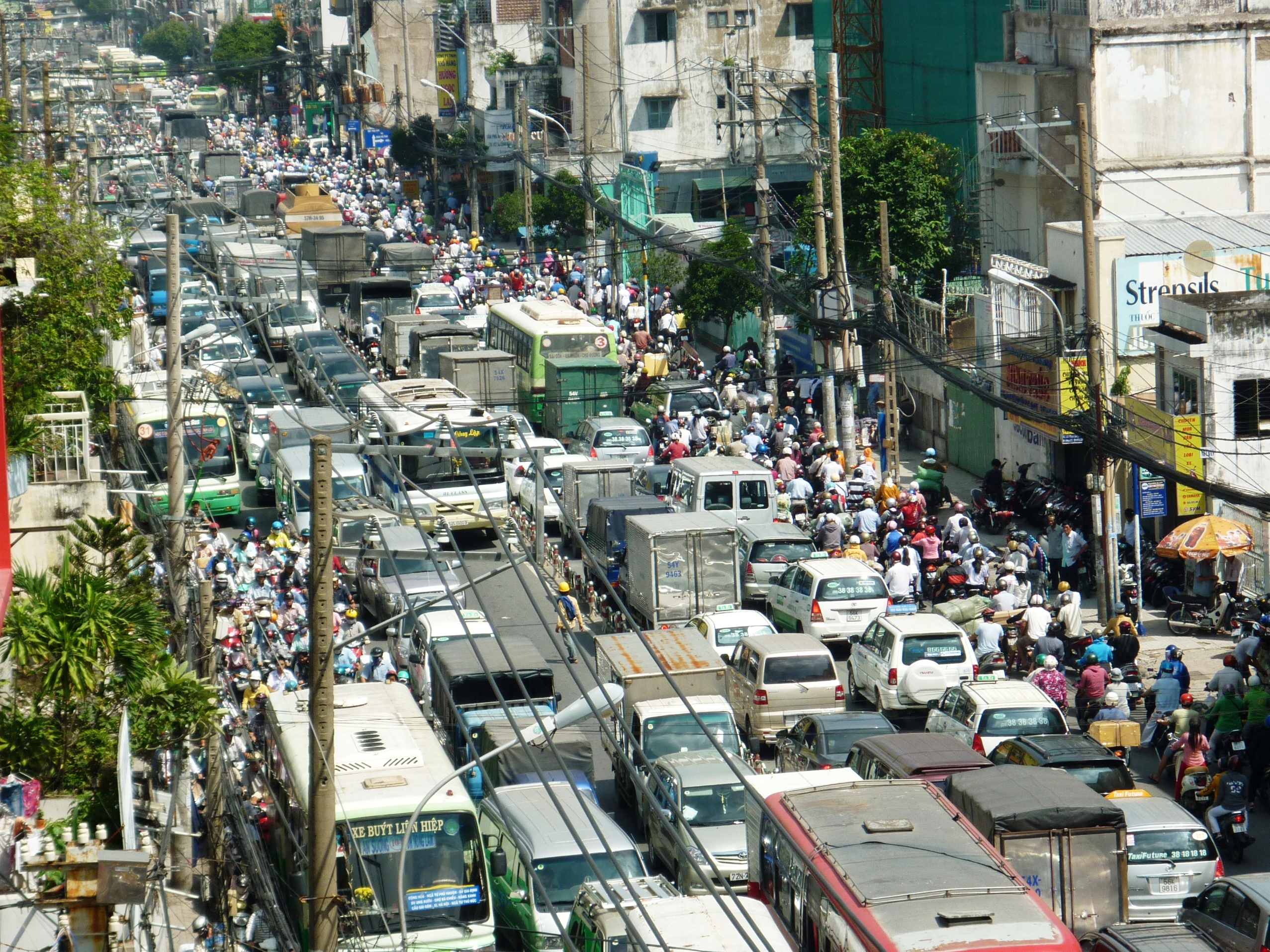 Vehicles get stuck on Phan Dang Luu street, Phu Nhuan district, HCMC